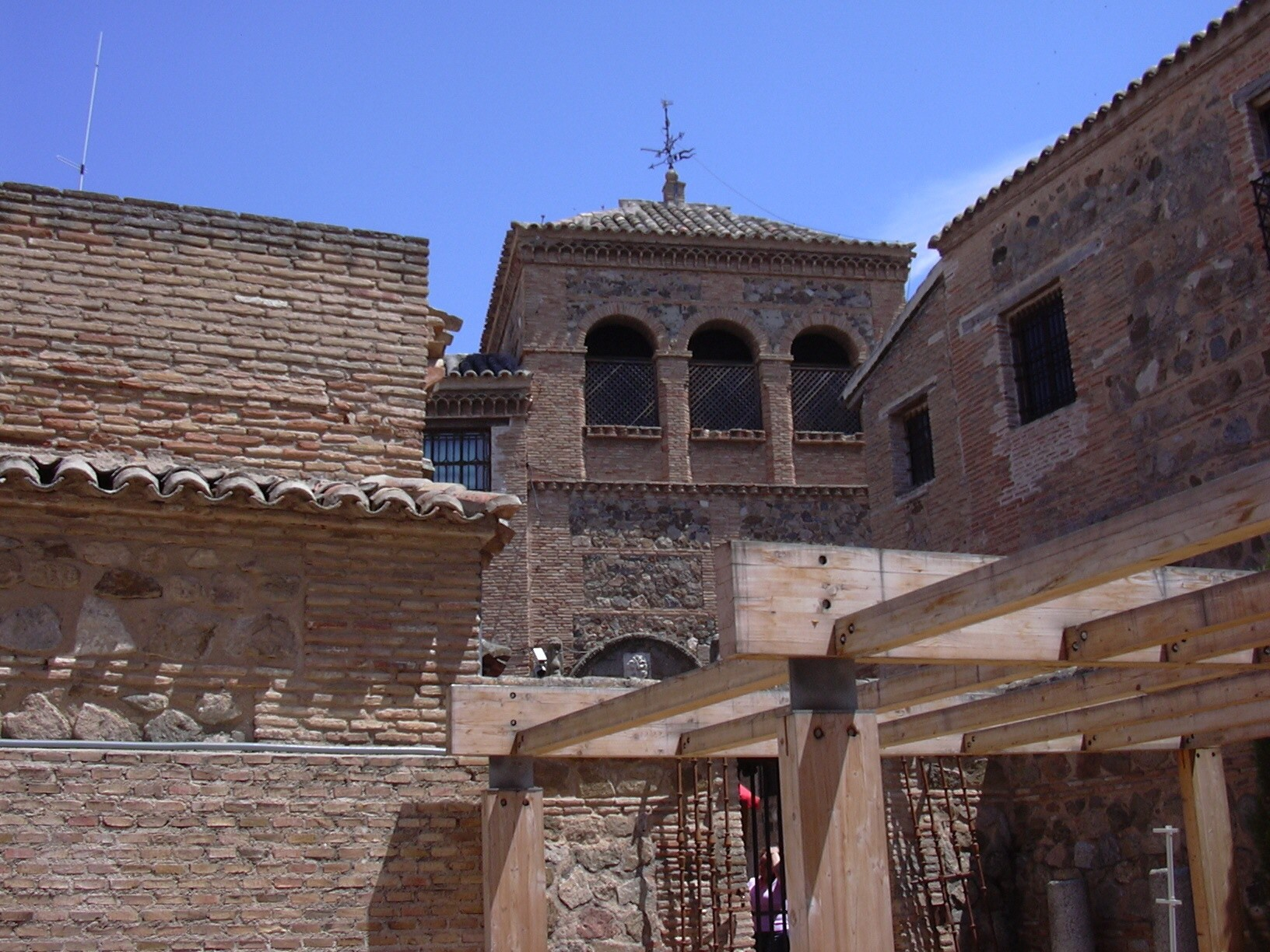 El Greco's house in Toledo, Spain